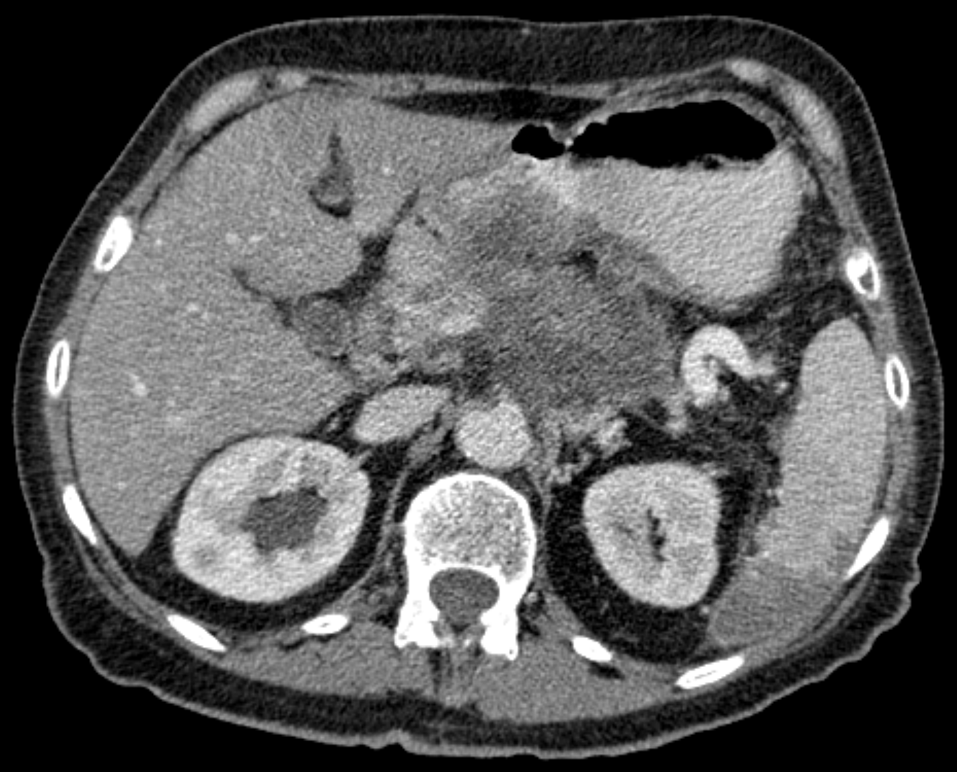 Pancreatic cancer in computertomography. The patient suffered from back-pain and was treated successfully by Celiac Plexus Blockade.